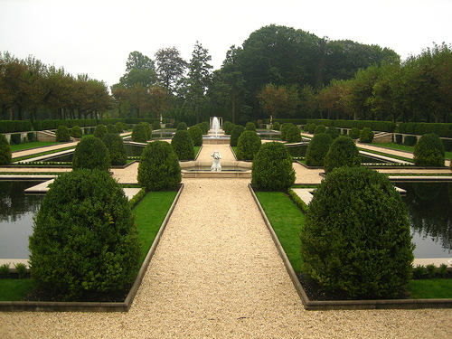 Gardens of Oheka Castle on Long Island, New York.